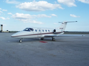 Hawker 400 XP